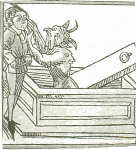 Vampire attacking a Christian, German engraving from the 15th century